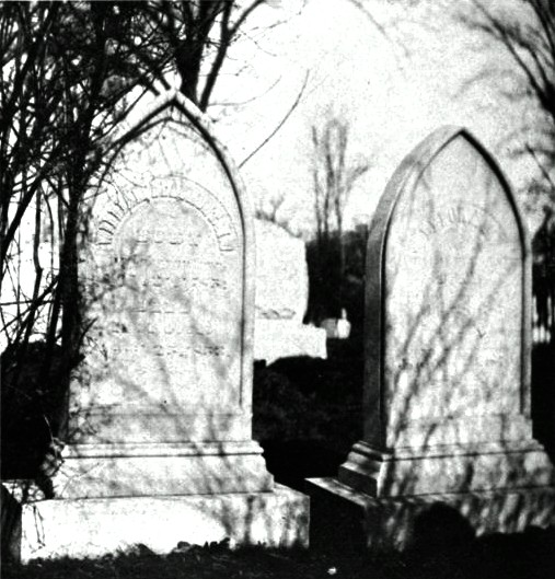 Picture of gravesite of William and Deborah Beaumont